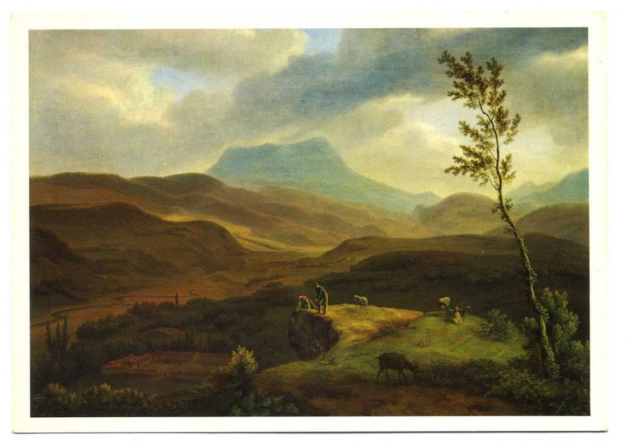 Jacques-Christophe Miville. View of the mountain Chater-Dag and the river Alma in the Crimea. 1814 1818